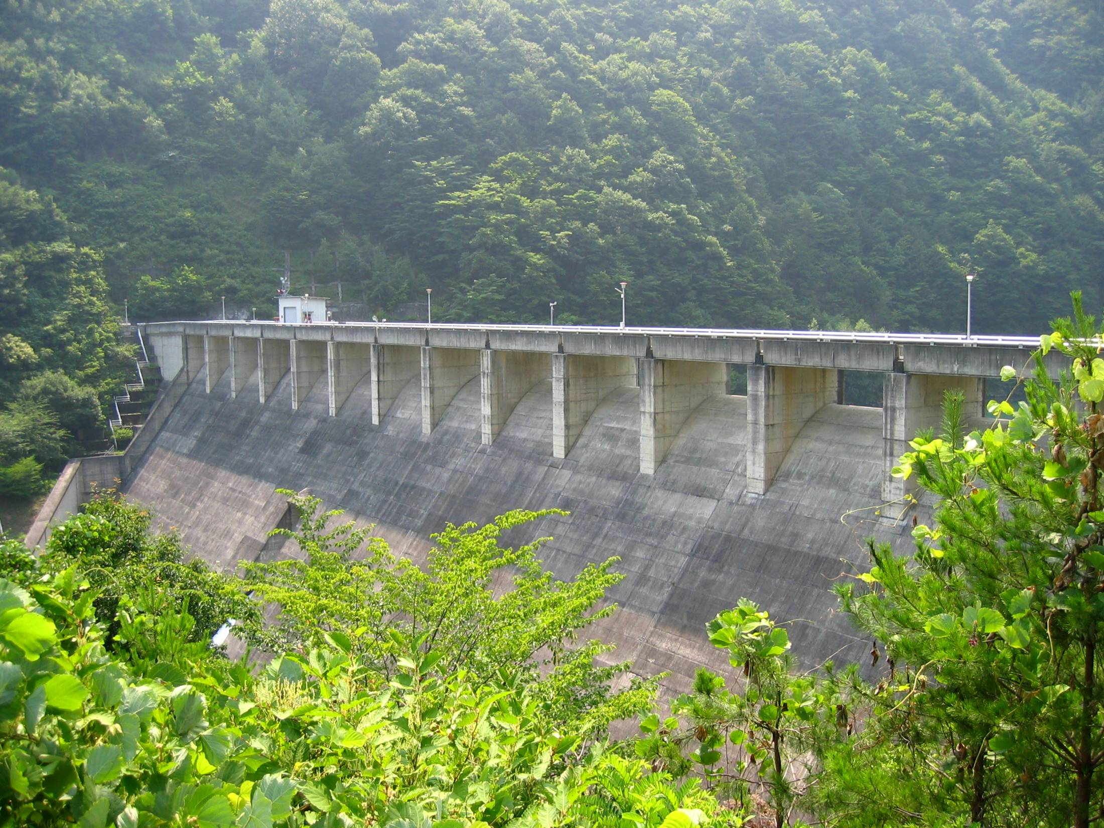 Yokokawa Dam (横川ダム) is a dam in Tatsuno town, Nagano prefecture, Japan.